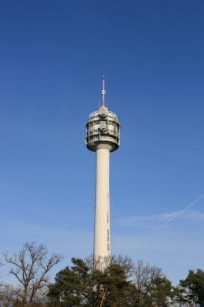 telecommunication tower in Perwenitz in Brandenburg, Germany